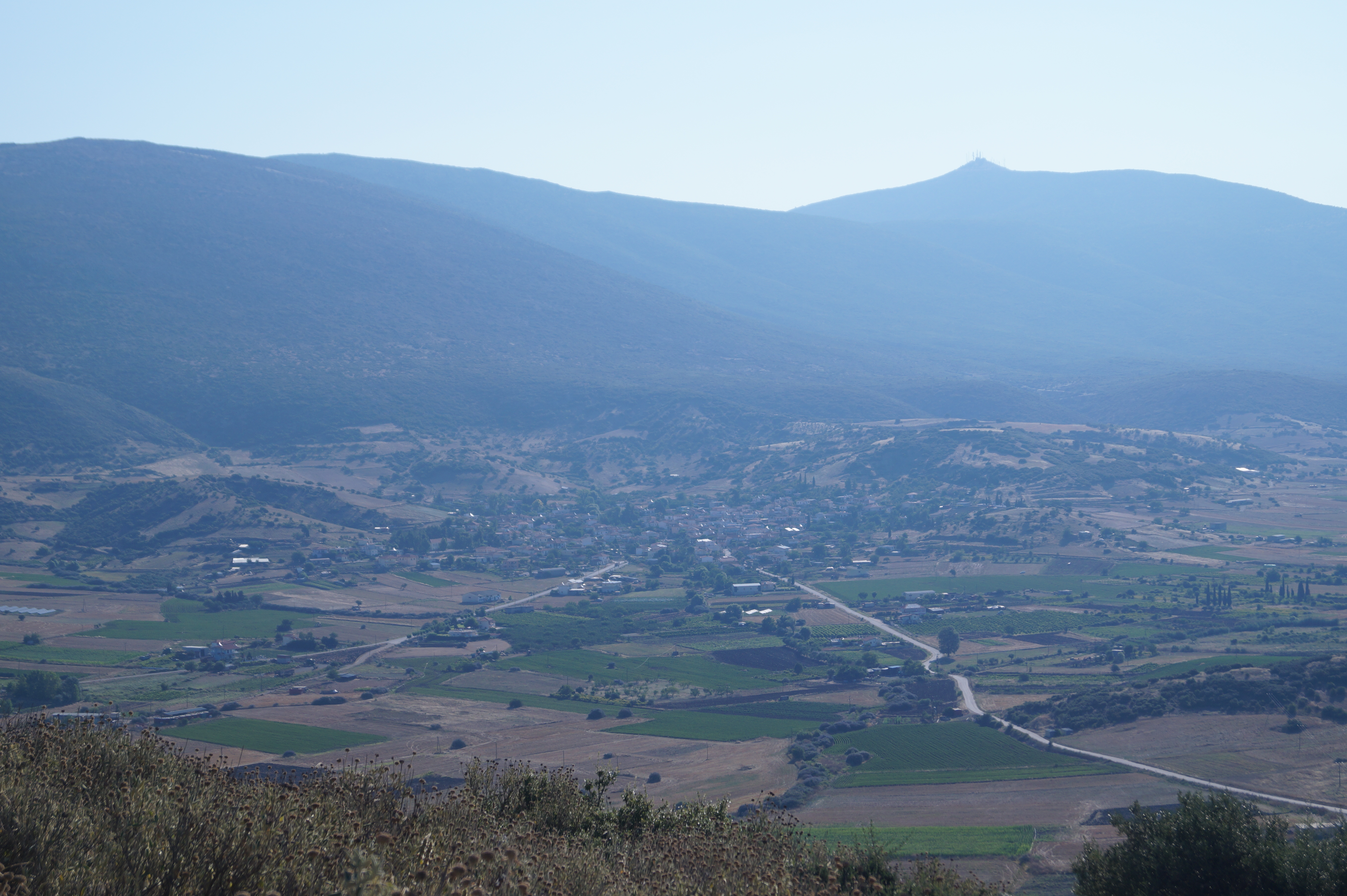 Archaeological site of Abae, Fthiotis, Greece. View from the acropolis on the village of Exarchos. In the background there is mount Chlomo.